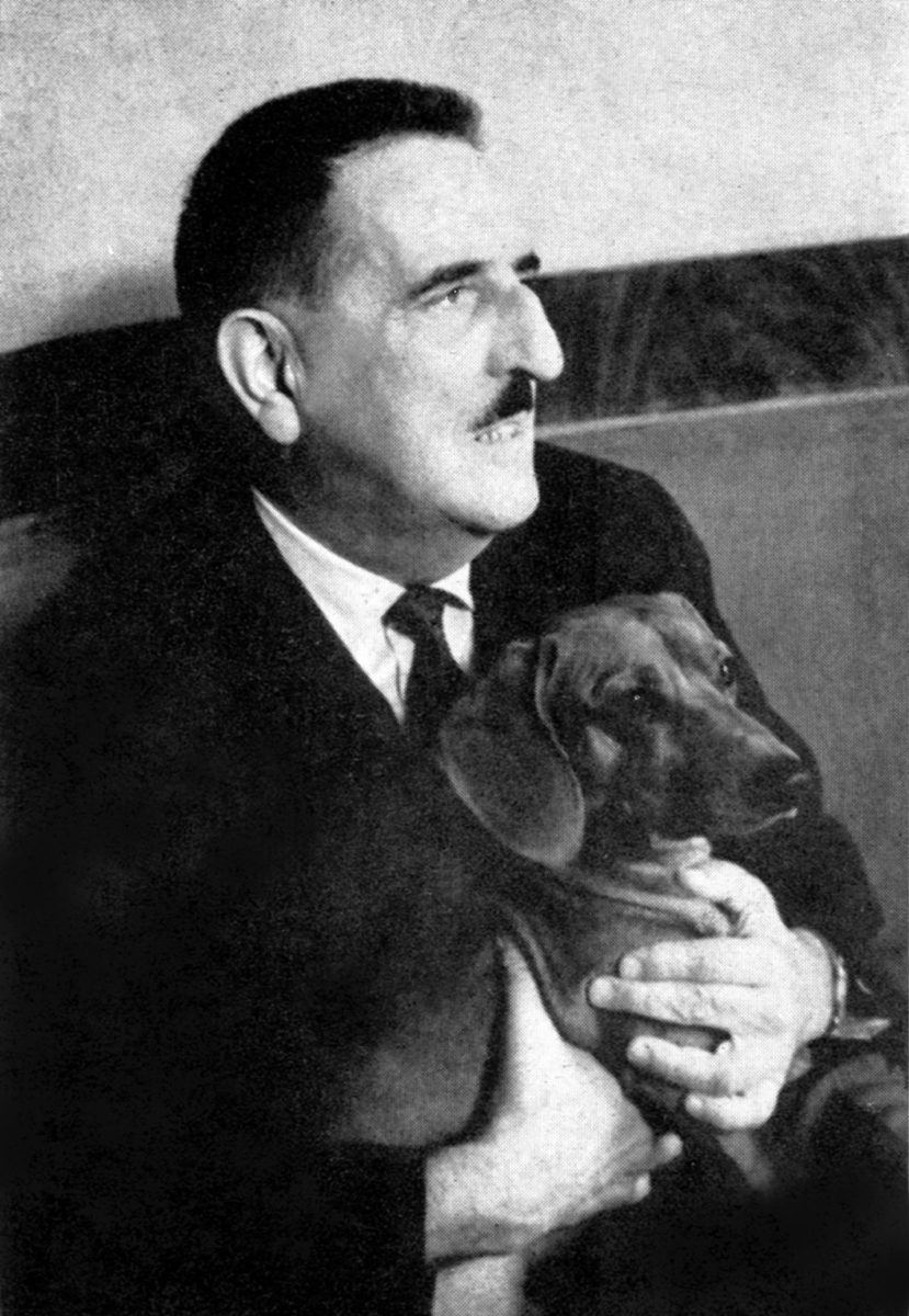 Jerzy Waldorff, Polish writer and music critic